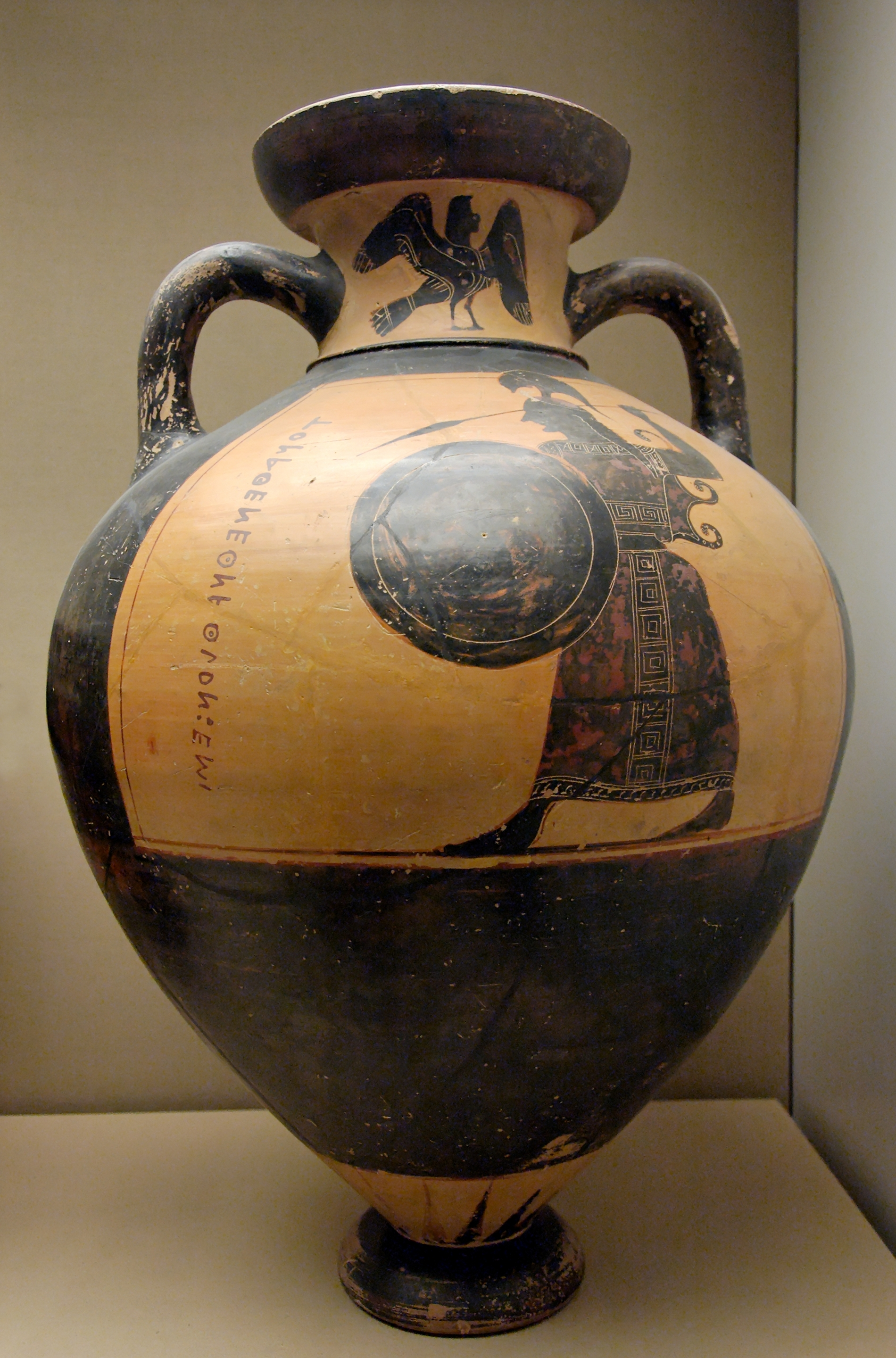 Athena wearing the aegis. Inscription: ΤΟΝ ΑΘΕΝΕΘ[Ε]Ν ΑΘΛΟΝ ΕΜΙ “I come from the prizes from Athens”. Black-figured Panathenaic amphora, ca. 566/65 BC. From Athens.